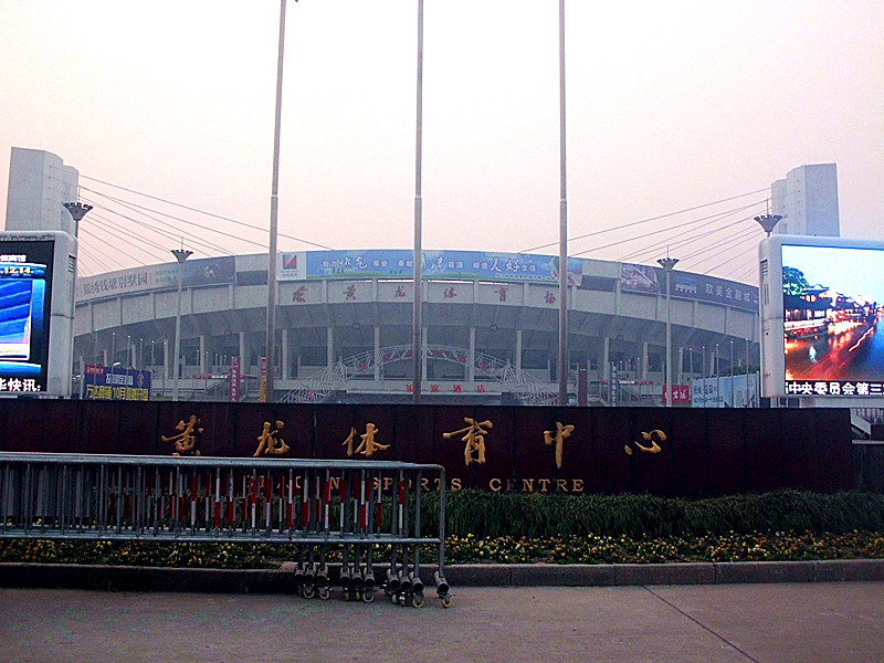 Yellow Dragon Stadium